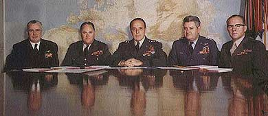 Operation Northwoods, Joint Chiefs of Staff, 1962